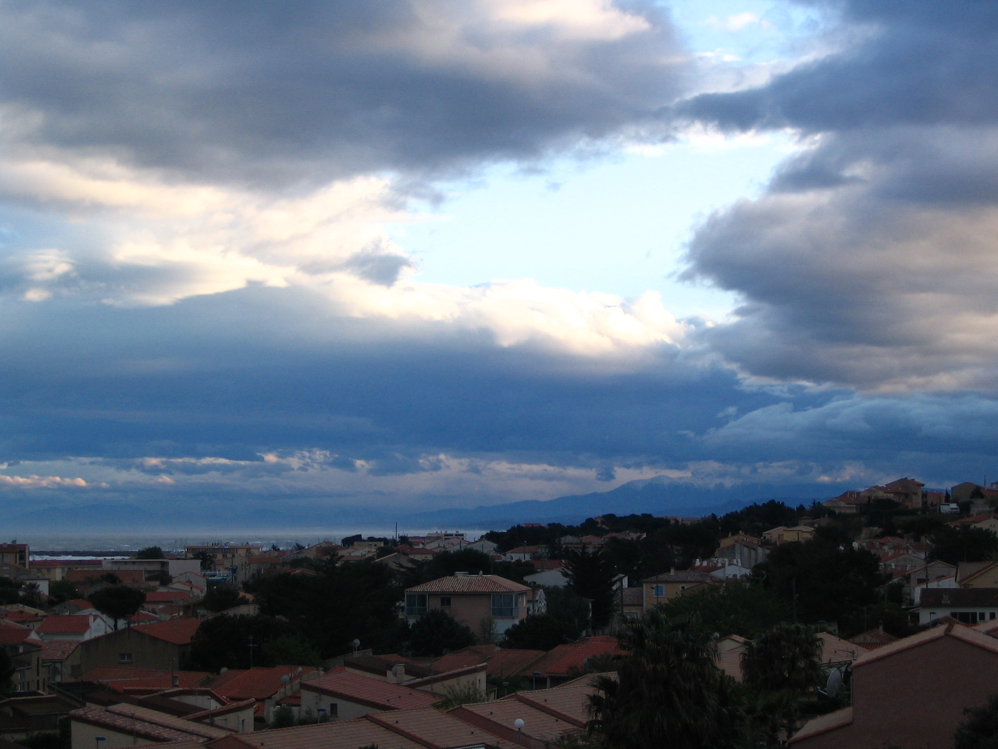 St-Pierre-la-Mer,village, coast